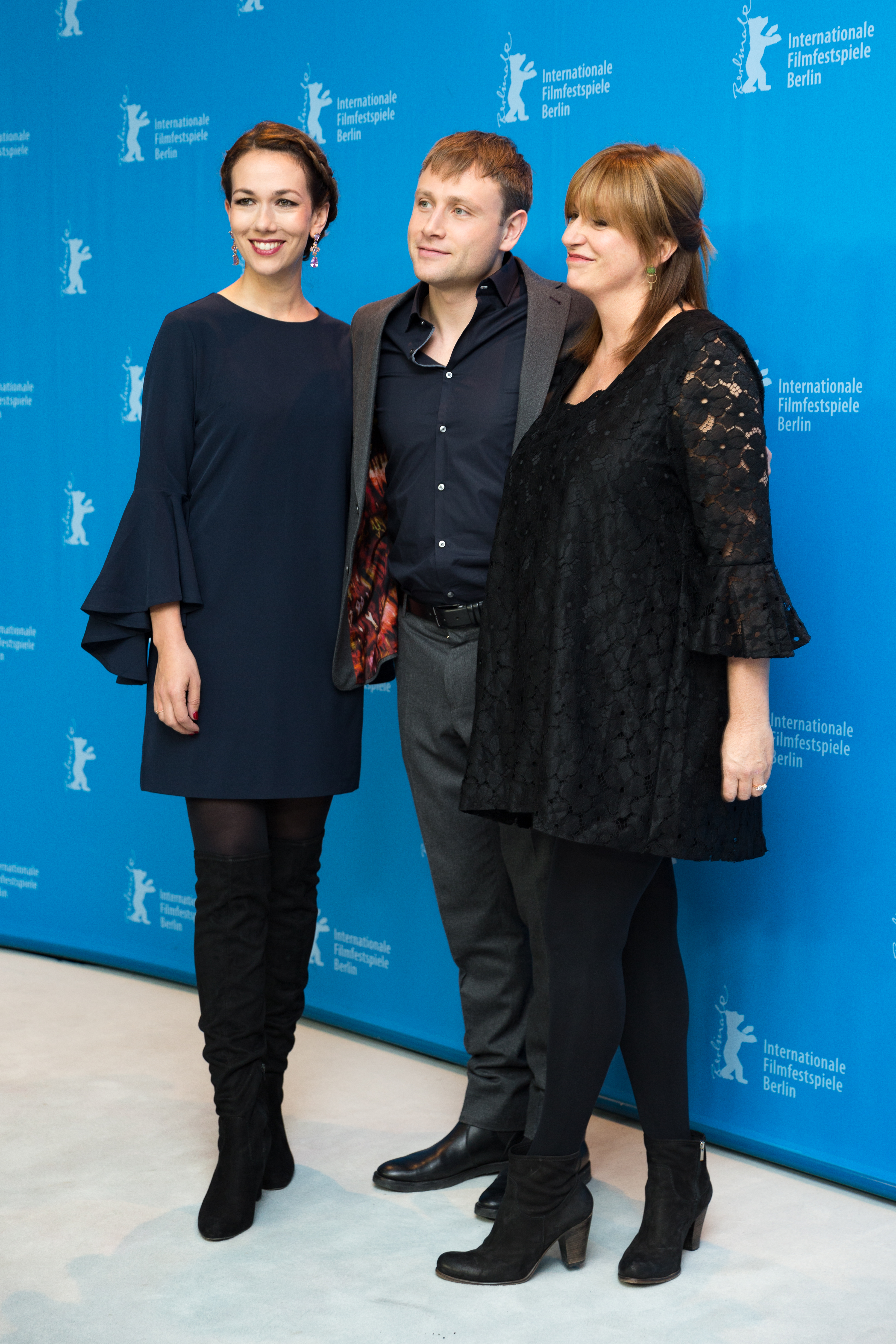 The producer Polly Staniford, actor Max Riemelt and director Cate Shortland presenting Berlin Syndrome at the Berlinale 2017